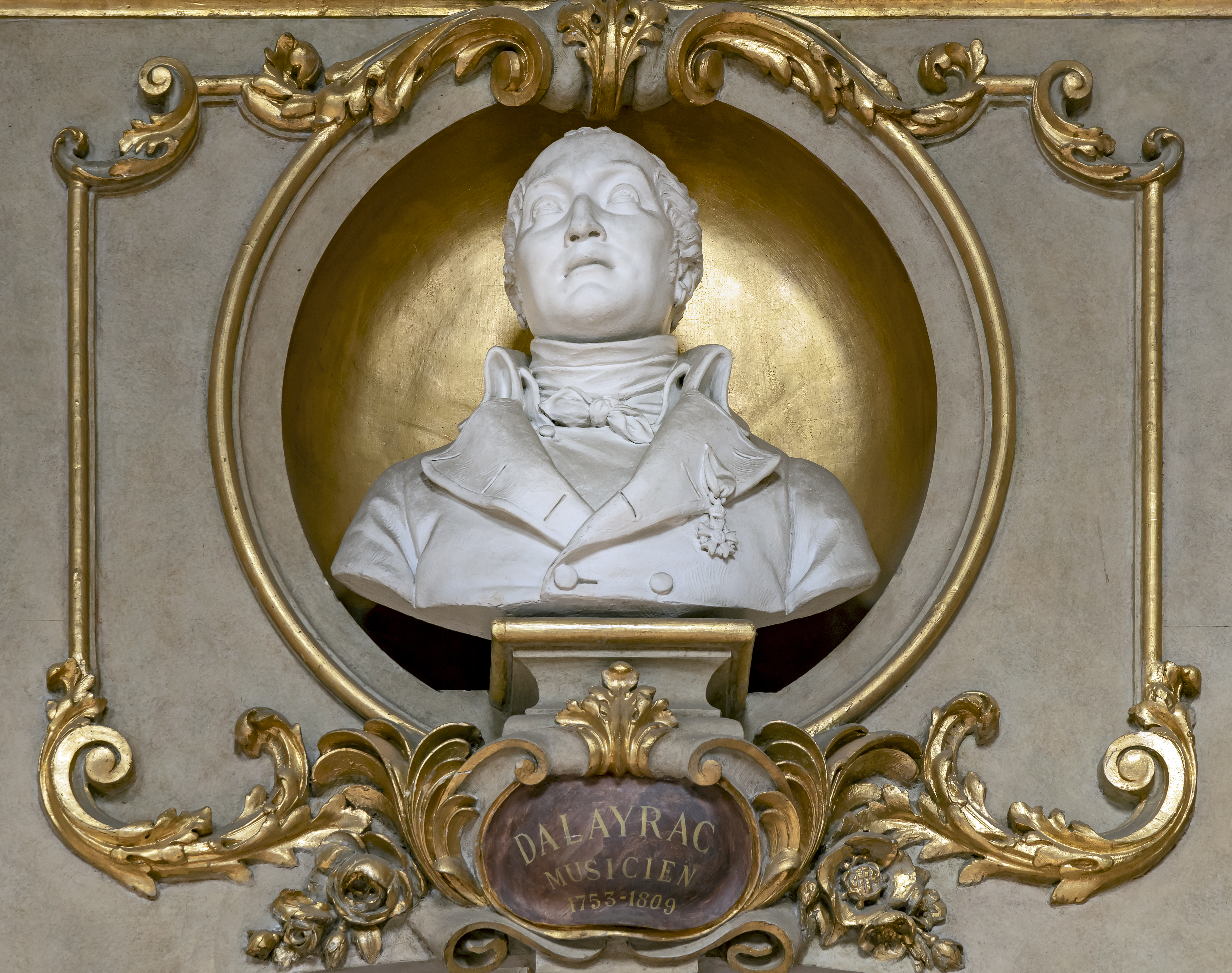 Depicted person: Nicolas Dalayrac – French musician and composer of comic operas (Muret 1753 - Paris 1809)